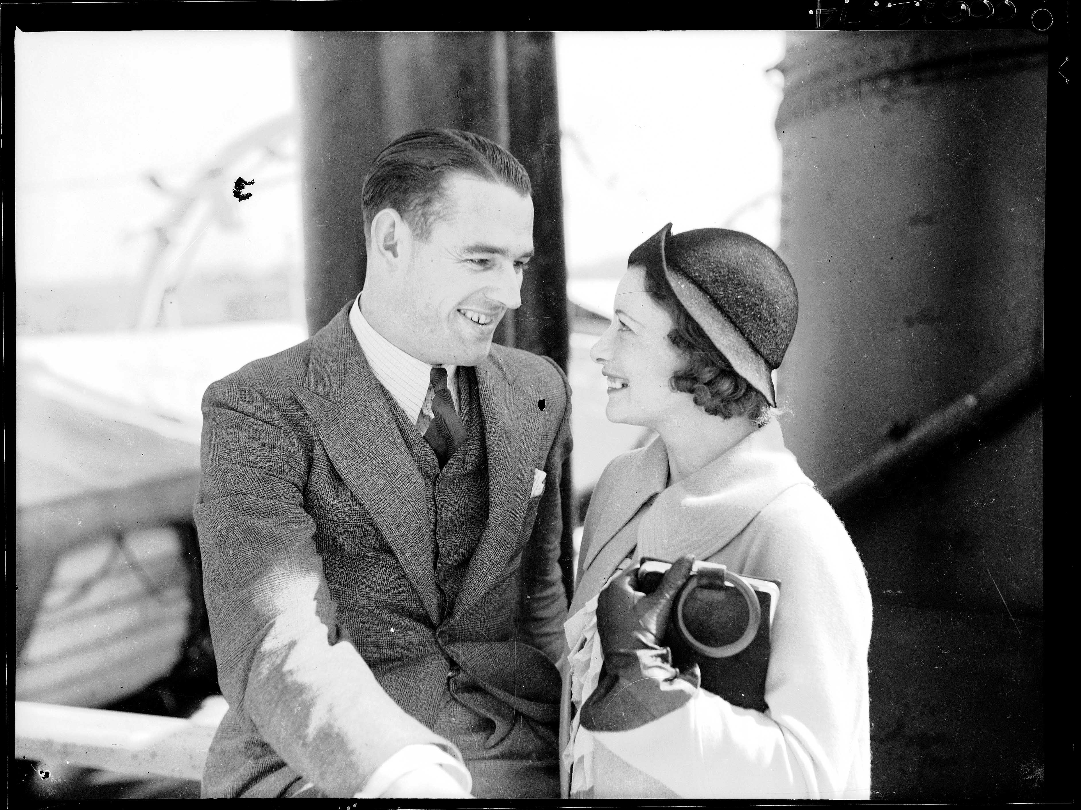 This photograph depicts Australian actor George Rikard Bell, whose screen name was Brian Abbot, and his wife Grace Rikard Bell. He boarded the Burns Philp liner SS MORINDA on 5 September 1936. The cast and crew were sailing Lord Howe Island to shoot the film Mystery Island (1937). Shortly after shooting the film, Rikard Bell and a fellow cast mate, Leslie Hay Simpson (screen name Desmond Hay), decided to forego the trip back to Sydney on board MORINDA and opted to sail on board the 16-foot motor skiff, MYSTERY STAR. The two were never seen again. This photograph shows George Rikard Bell saying goodbye to his wife for the last time. Please see our blog for an extended version of the story. This photo is part of the Australian National Maritime Museum’s Samuel J. Hood Studio collection. Sam Hood (1872-1953) was a Sydney photographer with a passion for ships. His 60-year career spanned the romantic age of sail and two world wars. The photos in the collection were taken mainly in Sydney and Newcastle during the first half of the 20th century. The ANMM undertakes research and accepts public comments that enhance the information we hold about images in our collection. This record has been updated accordingly. Photographer: Samuel J. Hood Studio Collection Object no. 00022874